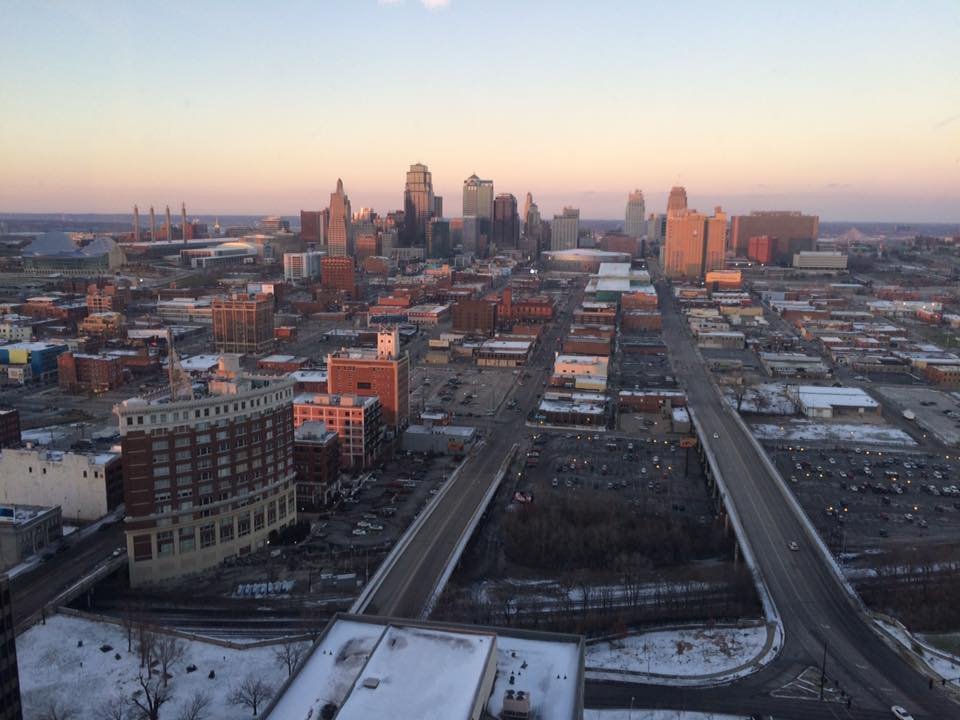 View of downtown Kansas City from the Sheraton Hotel